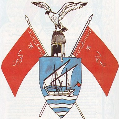 old coat of arms of Kuwait 1956-1962